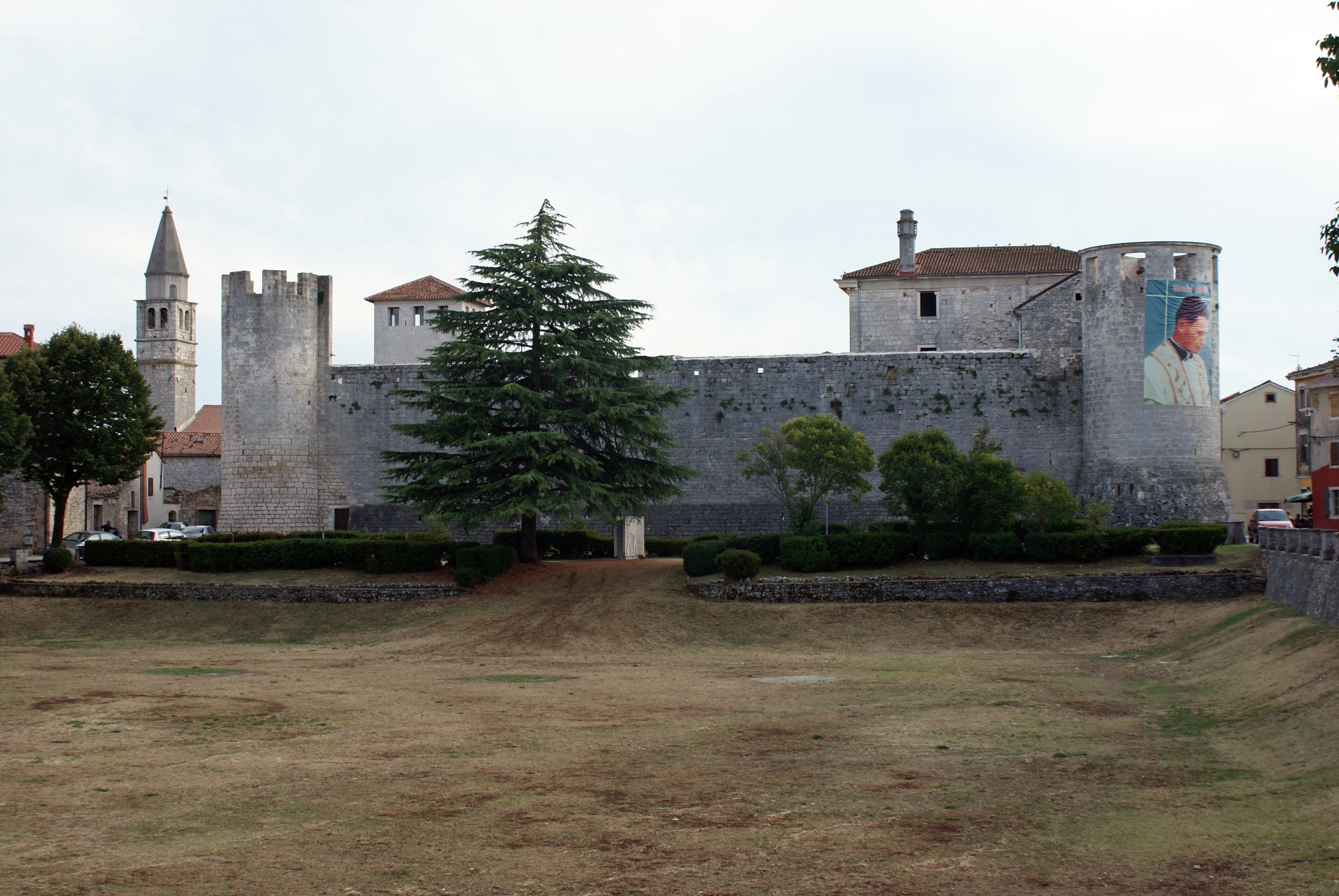 The Morosini-Grimani Castle in Svetvinčenat, Croatia